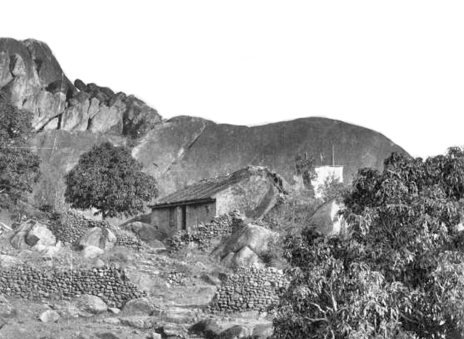 Jaugada rock (large rock behind the house) with Ashoka Major Rock Edict